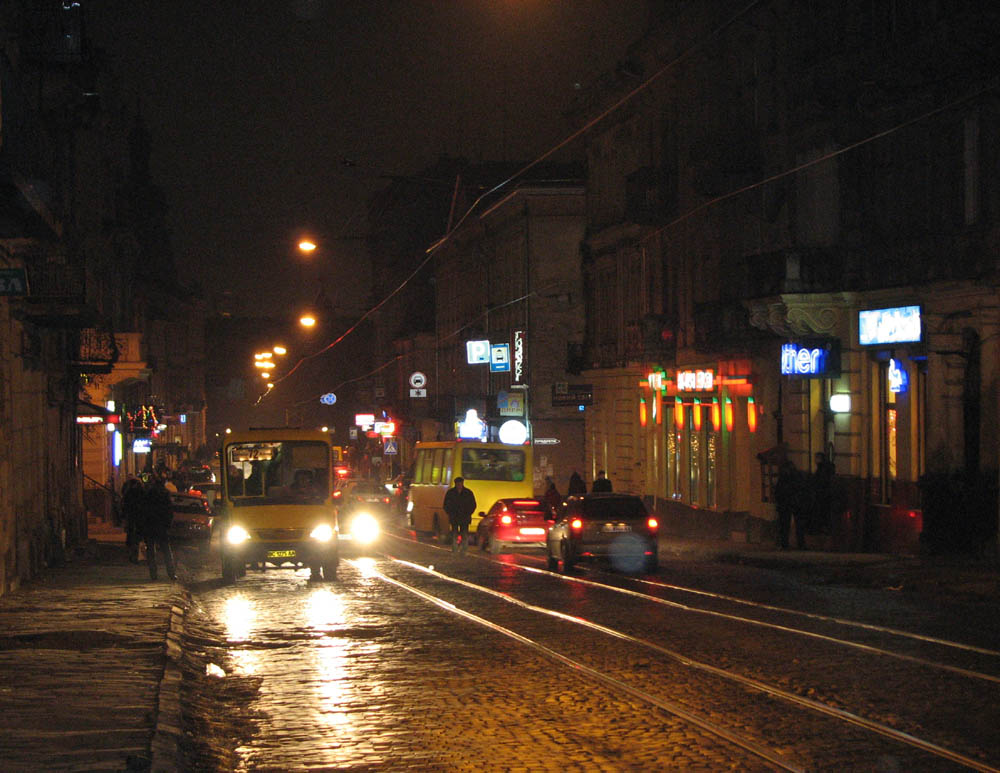 Lychakivska street at night. Lviv, Ukraine